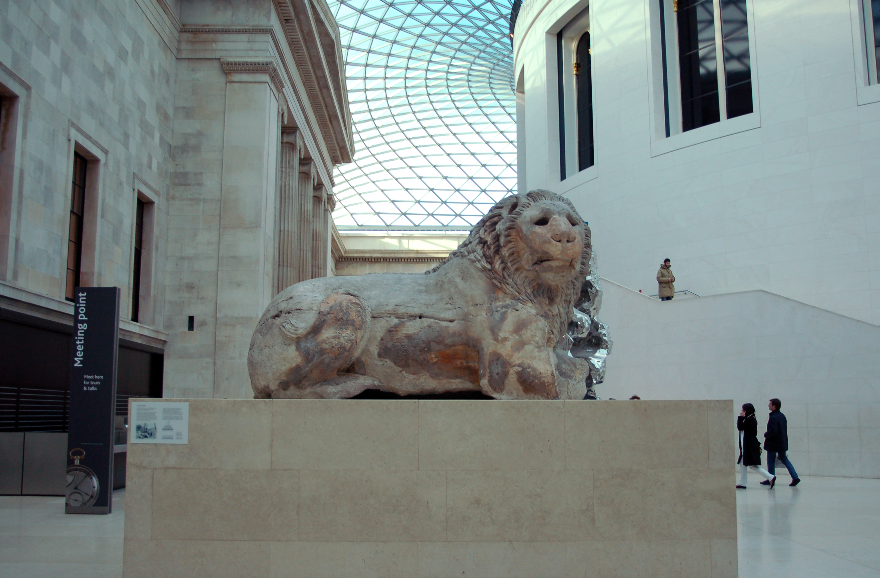 Colossal lion sculpture originally from Knidos, carved from one solid block of Pentelic marble on display in the British Museum's Great Court, London. It is believed to commemorate the great naval victory, the Battle of Cnidus, in which Conon defeated the Lacedaemonians in 394 BC.